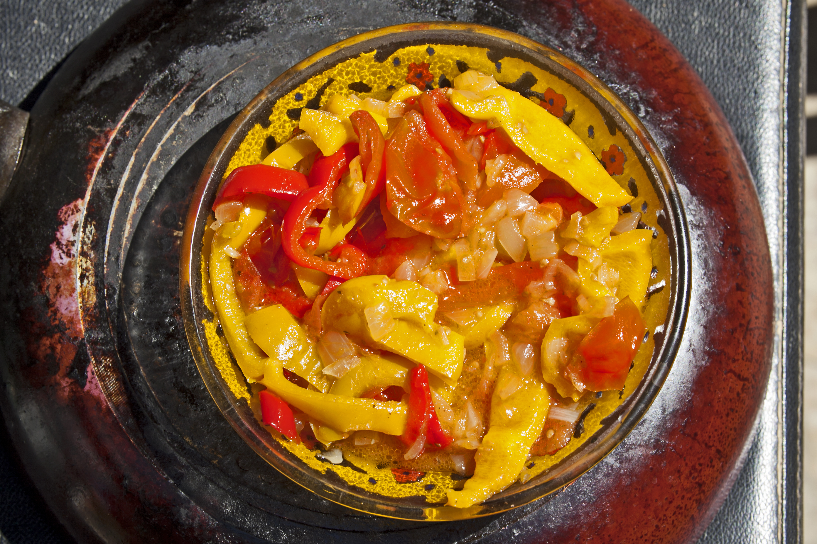 My Mom's Hungarian Lecsó